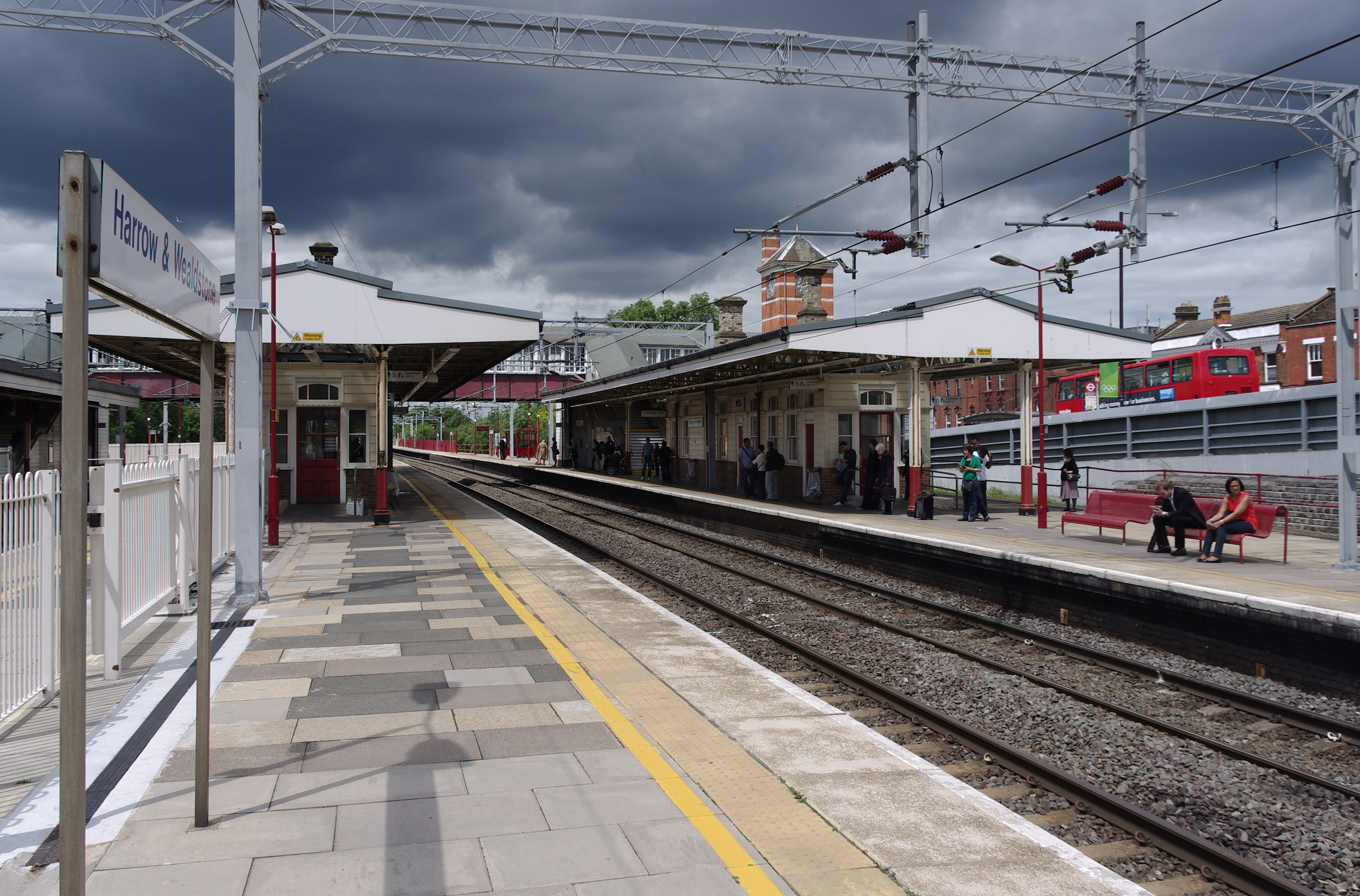 Harrow & Wealdstone station under heavy skies.